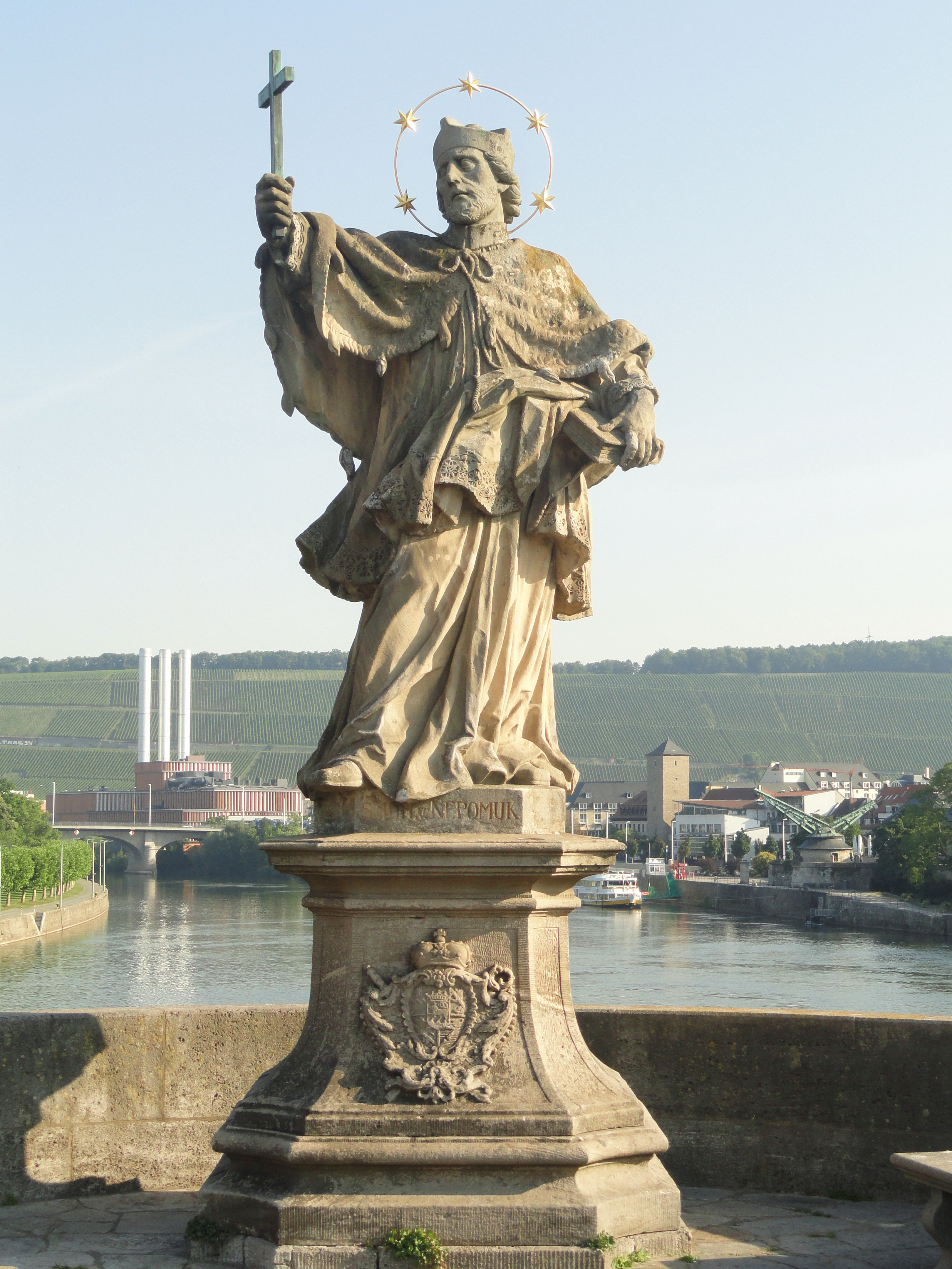 Statue on the Alte Mainbrücke in Würzburg, Germany.